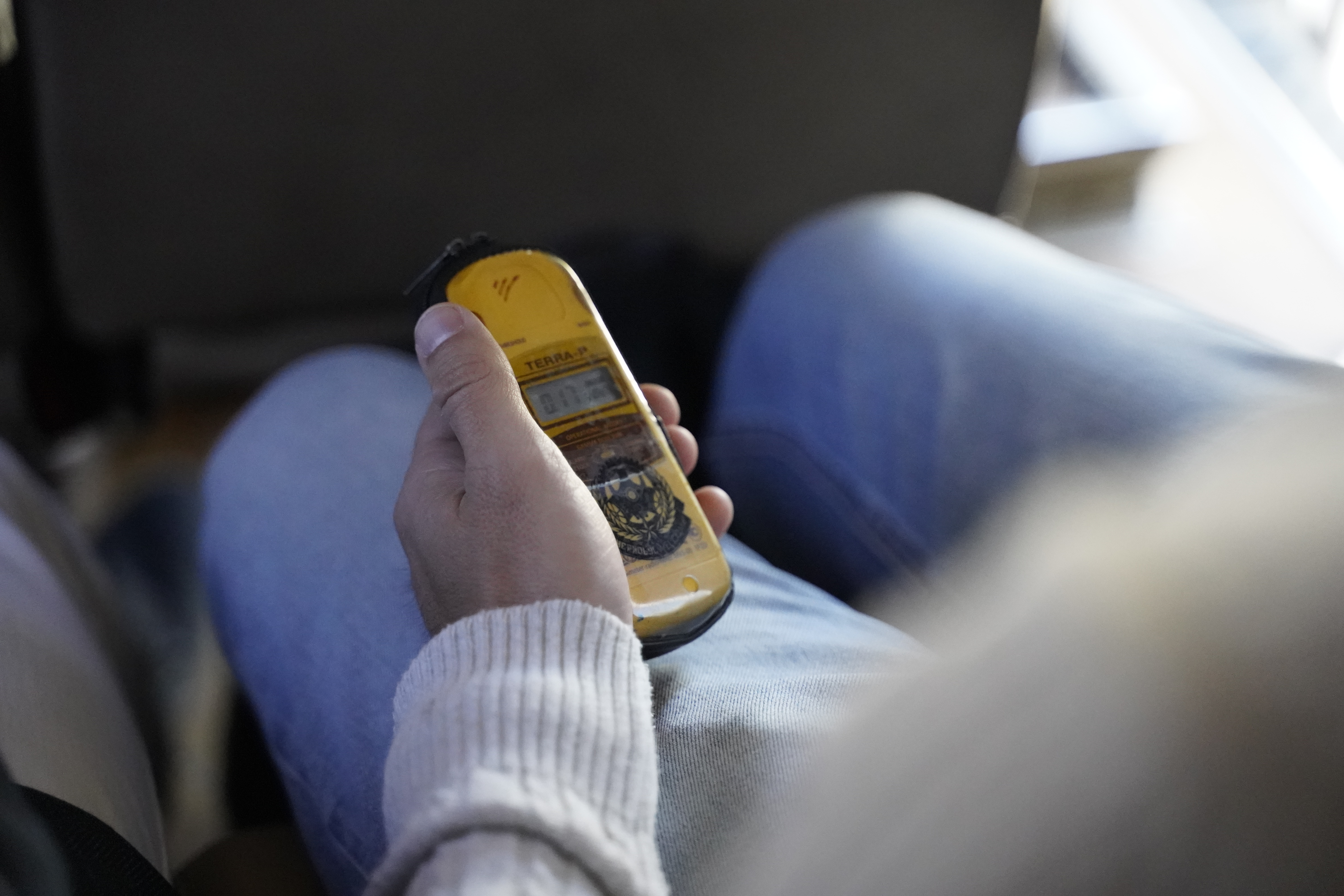 Male hand holding a dosimeter in a tour bus to measure radioactivity in Pripyat, in the Chernobyl compound